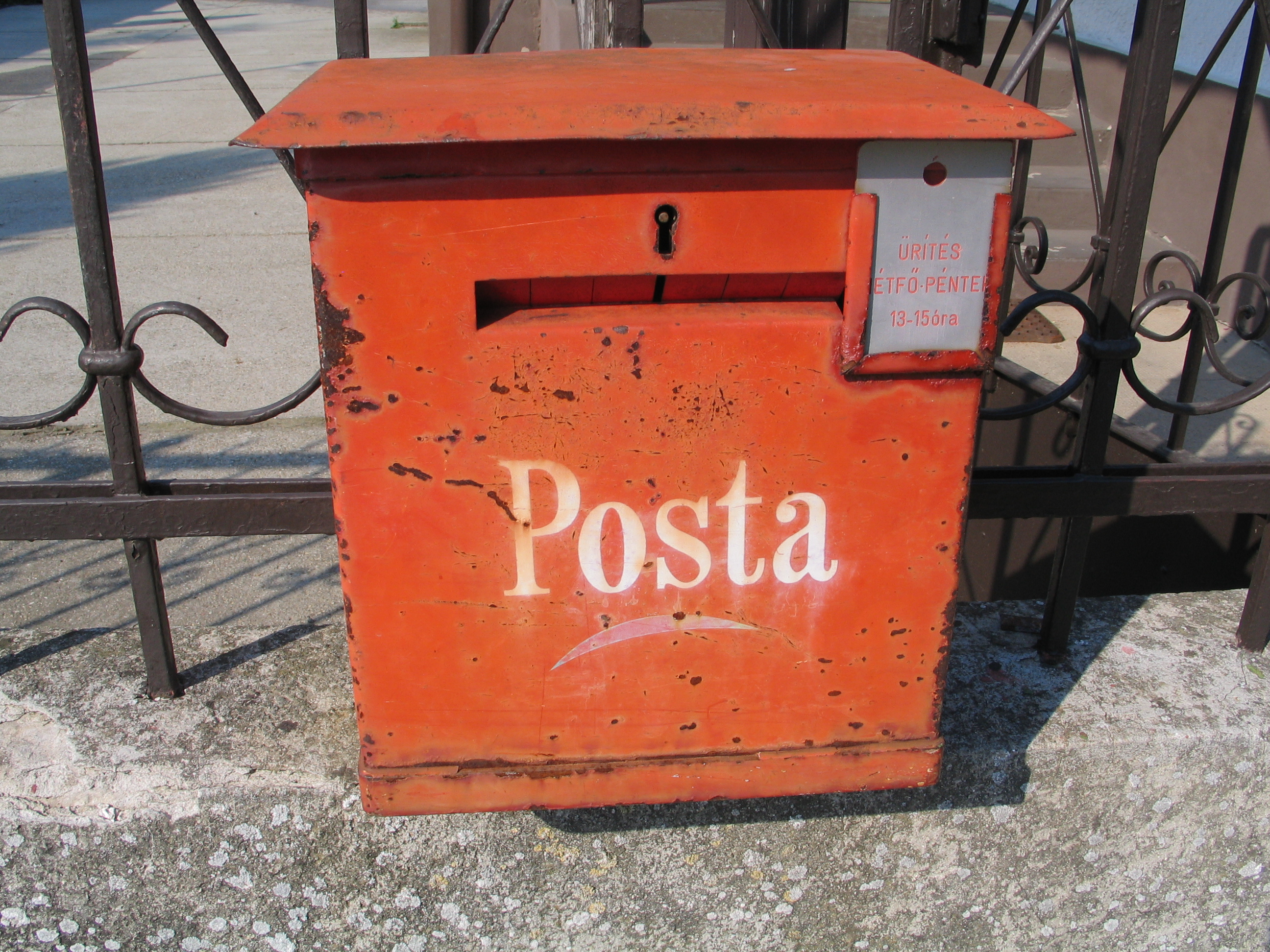 A post box in Hungary.